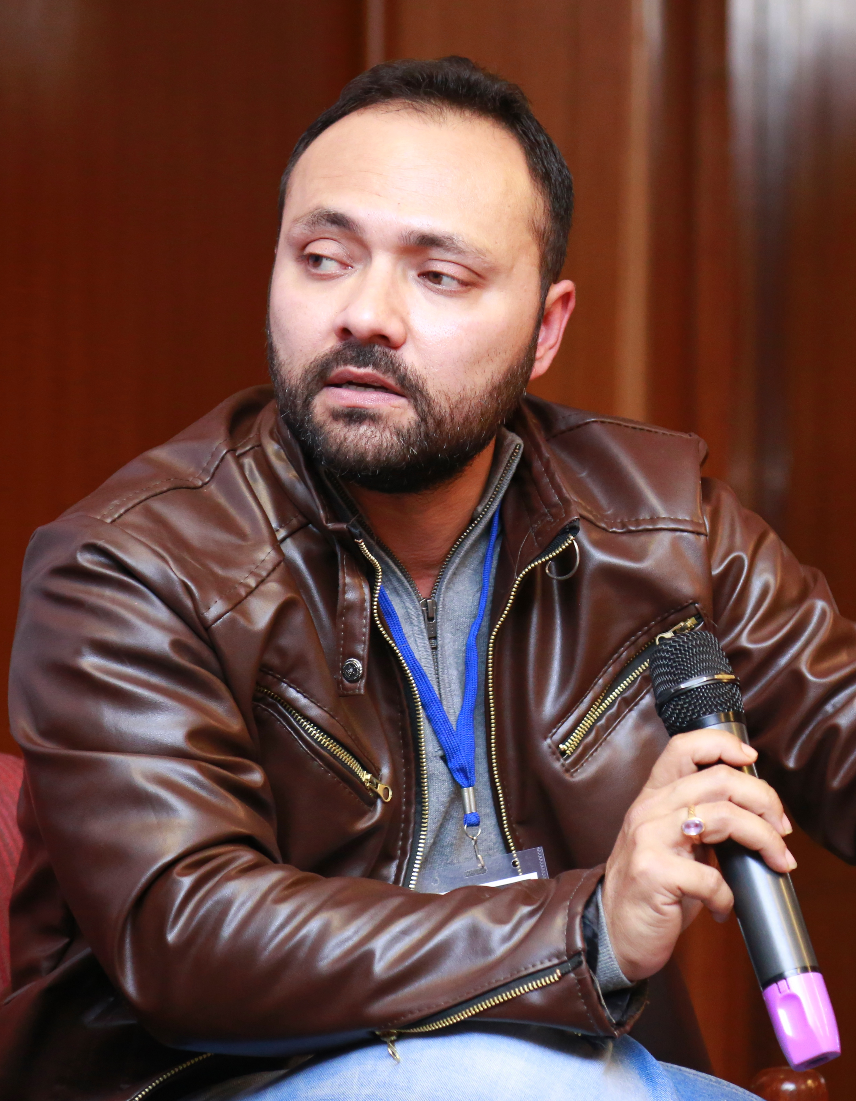 Sumon K Chakrabarti at the Start Up Board Meet Conference in New Delhi, Jan 2017